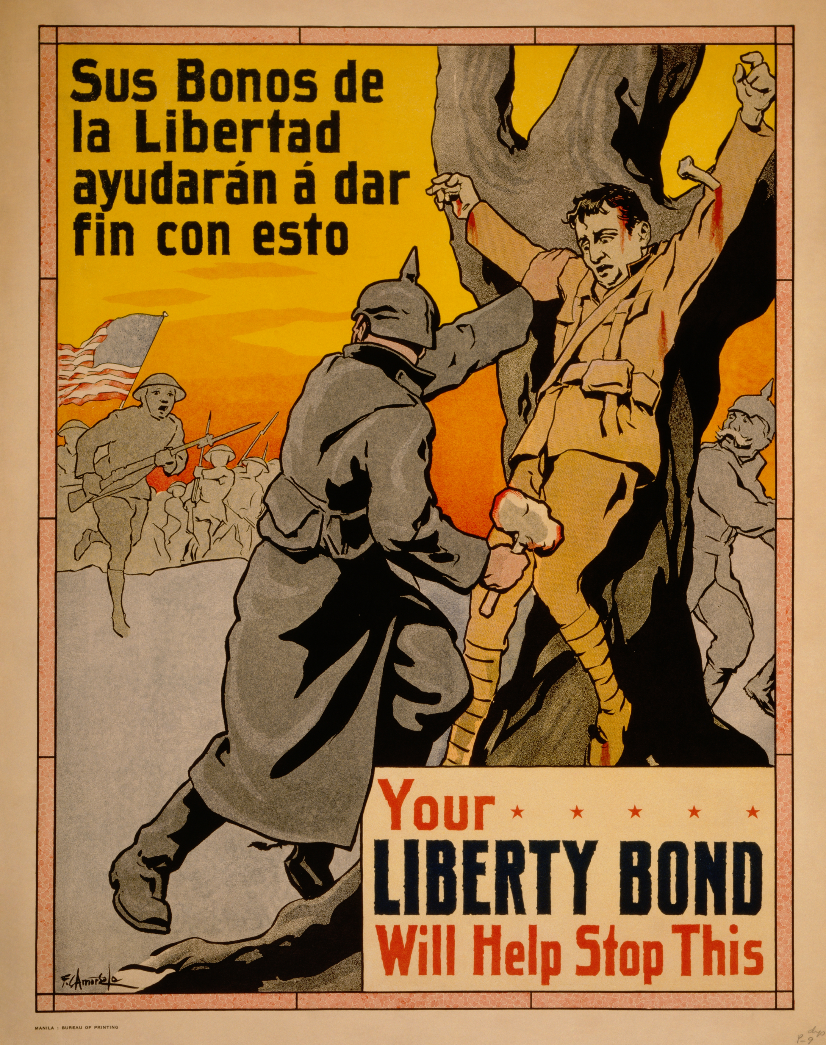 Poster showing German soldiers nailing a man to a tree, as American soldiers come to his rescue. "Your Liberty Bond will help stop this - Sus bonos de la libertad ayudarán á dar fin con esto". Published in Manila by Bureau of Printing. Poster measures 72 by 56 centimetres (28 in × 22 in).